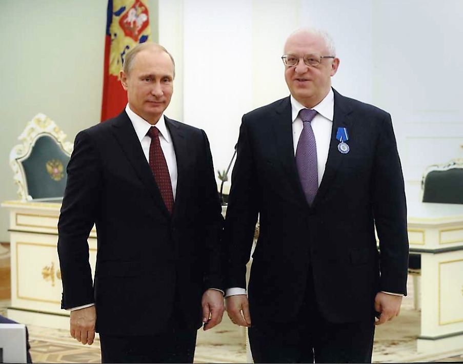 V. Putin , N.Marder